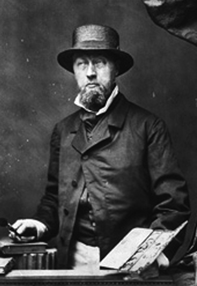 Johan Barthold Jongkind (June 3, 1819 – February 9, 1891) was a Dutch painter and printmaker regarded as a forerunner of Impressionism who influenced Claude Monet.